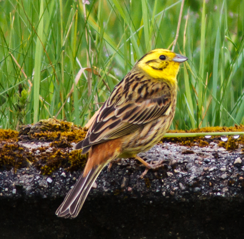 A male Yellowhammer in Midtjylland, Denmark.